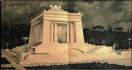 Thу project of architect Lev Eberg (1907-1982)